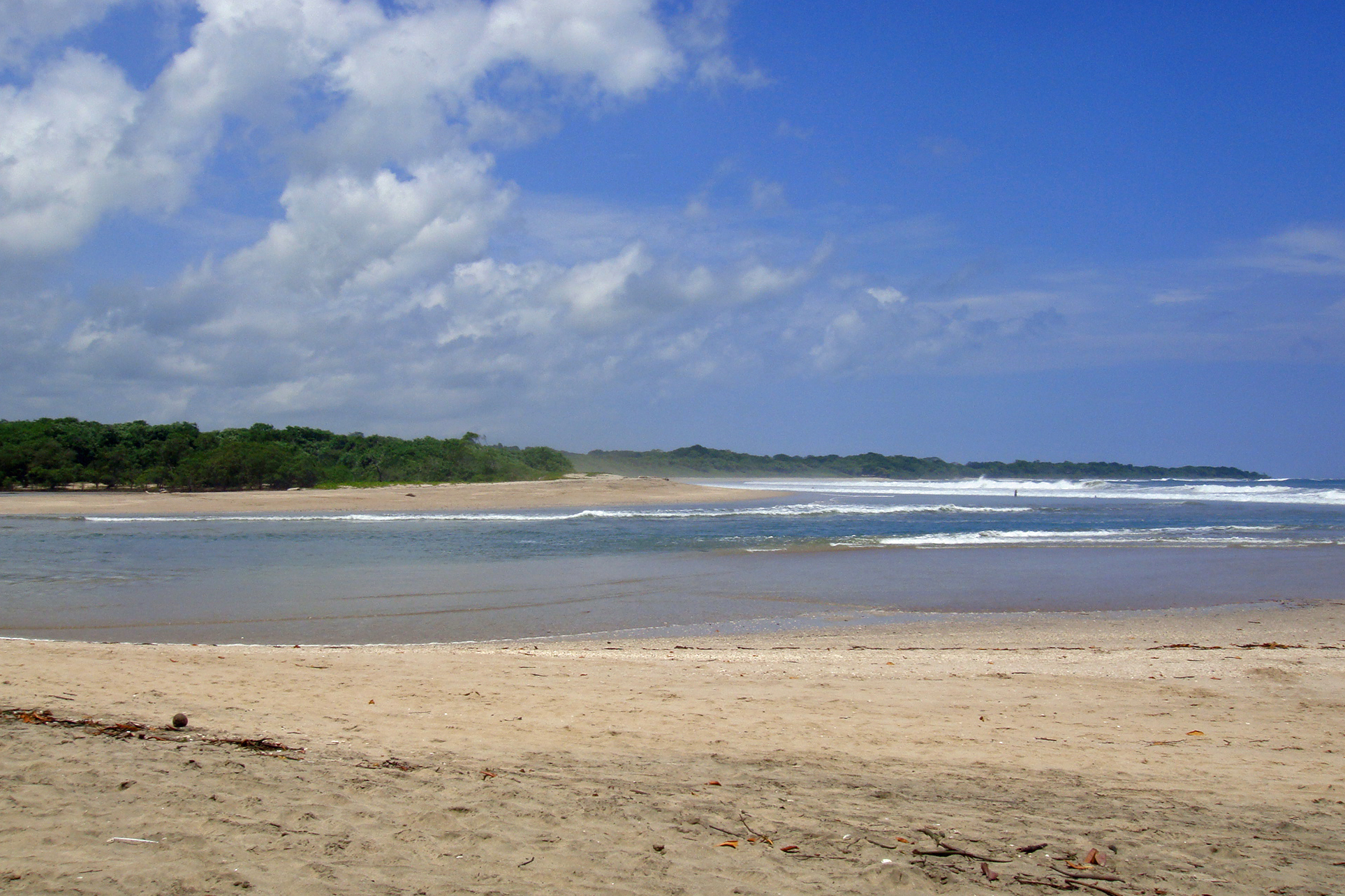 Panoramic view of Las Baulas National Marine Park, Guanacaste, Costa Rica